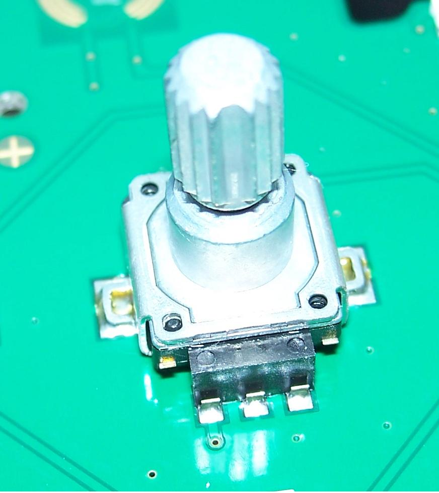 rotary encoder with pushbutton